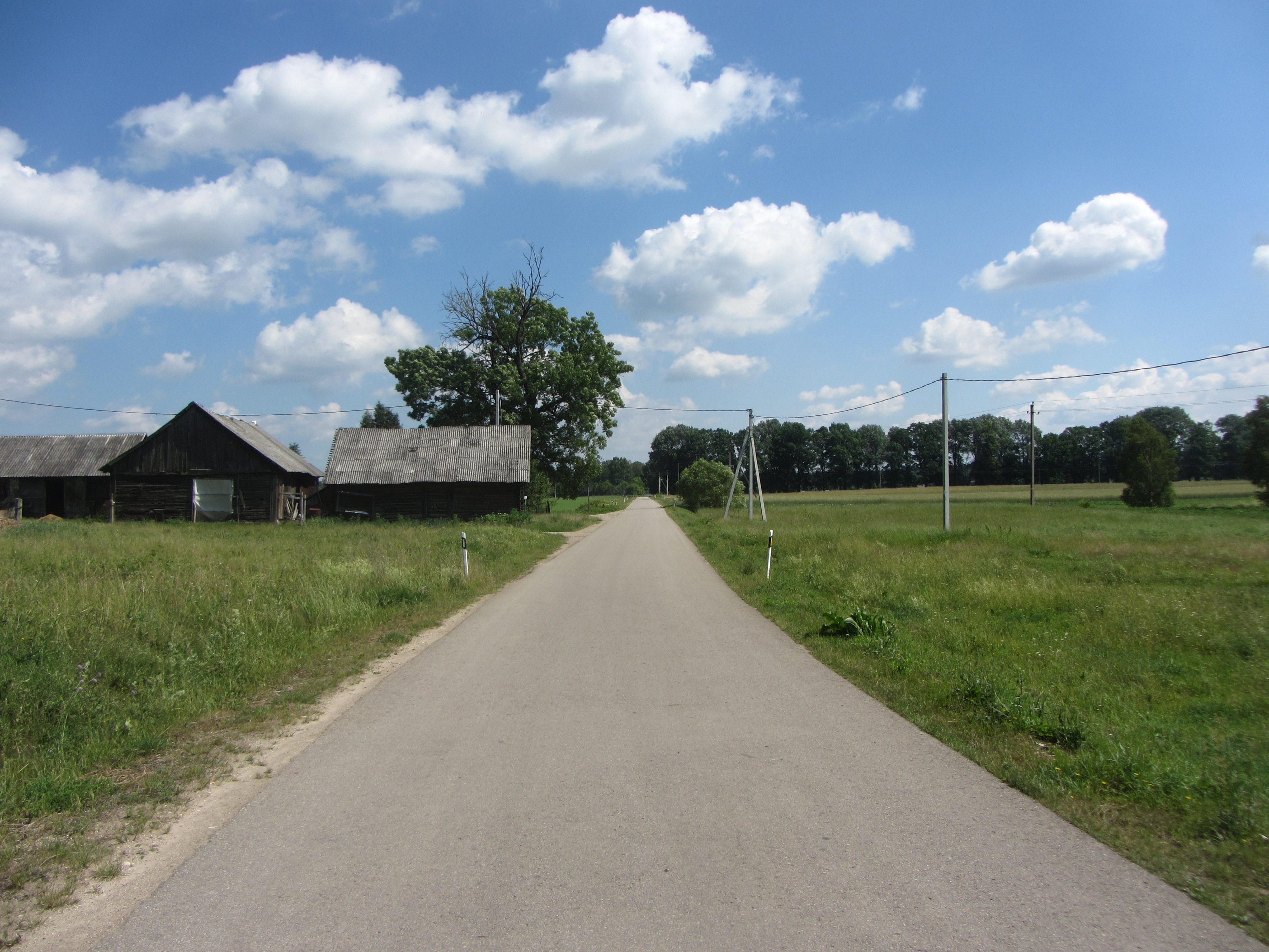 Birštono sen., Lithuania